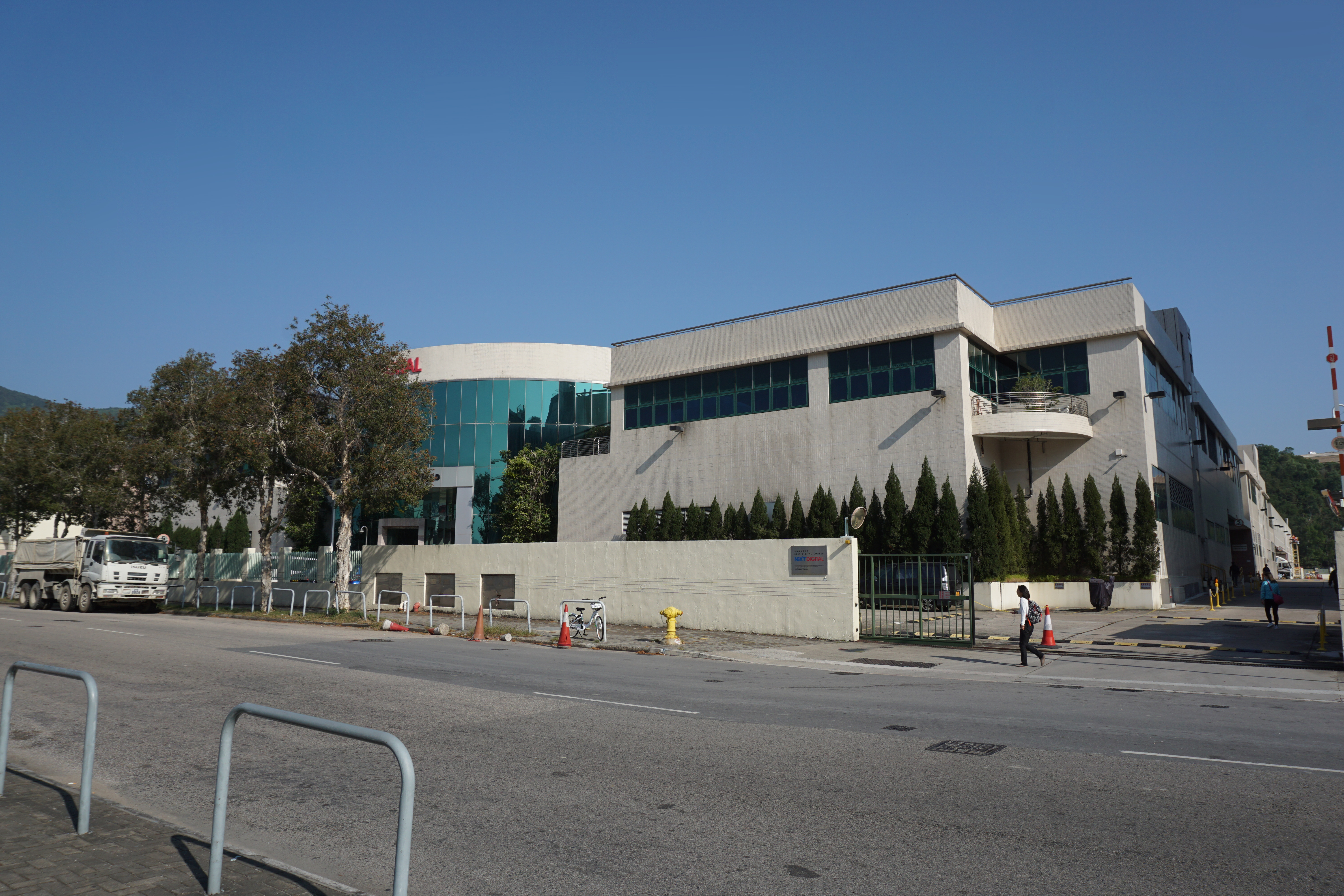 Next Media Company Limited in Tai Chik Sha, Hong Kong.